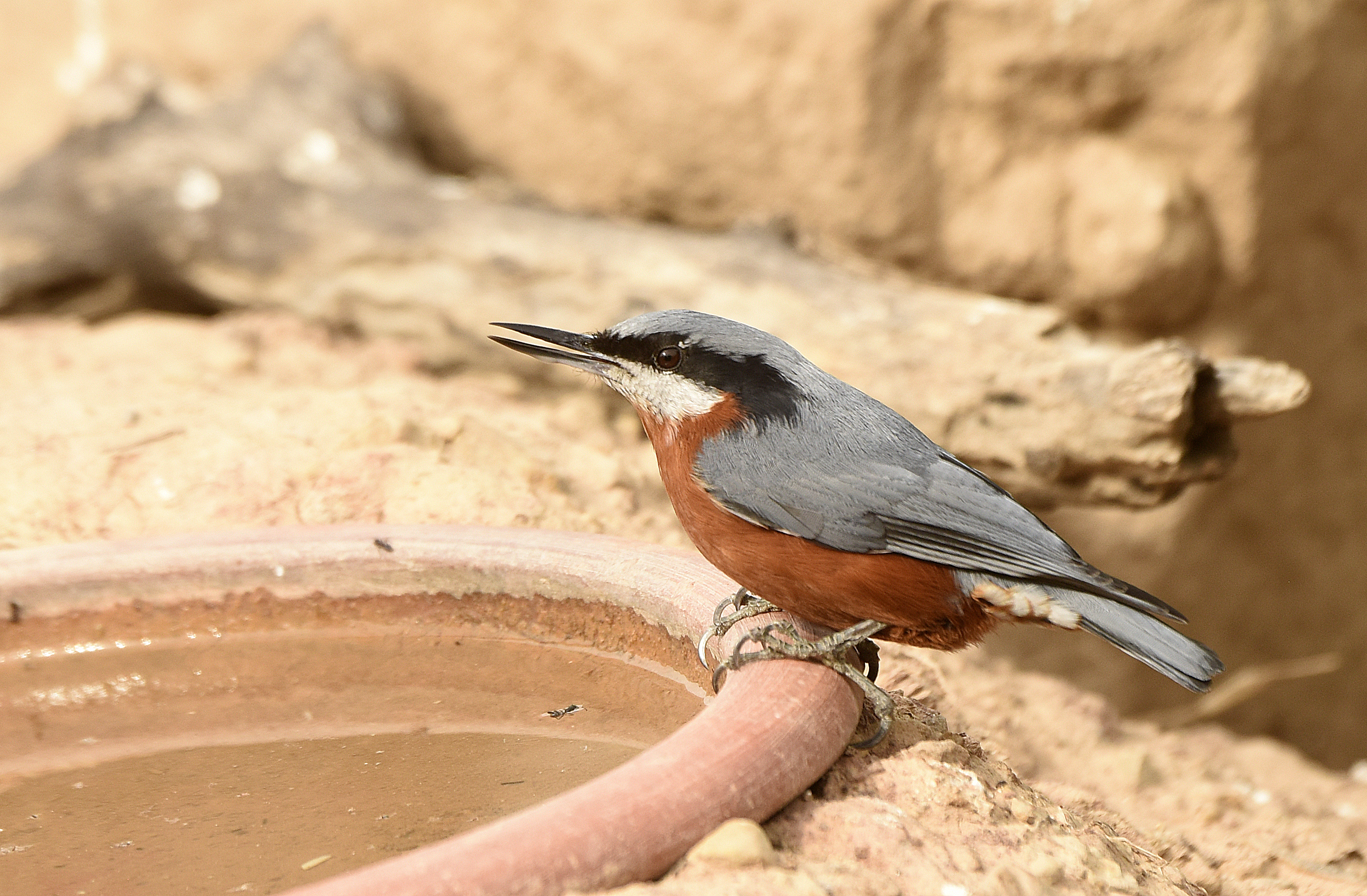 Ghatgarh, Nainital, Uttarakhand, India